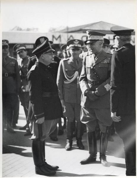 Ermanno Amicucci (1890–1955) – at that time subsecretary in the Italian Ministry of Corporations – in conversation with the Count of Turin, Prince Vittorio Emanuele of Savoy-Aosta (1870–1946), during a joint visit at the 1942 sample fair in Milan.